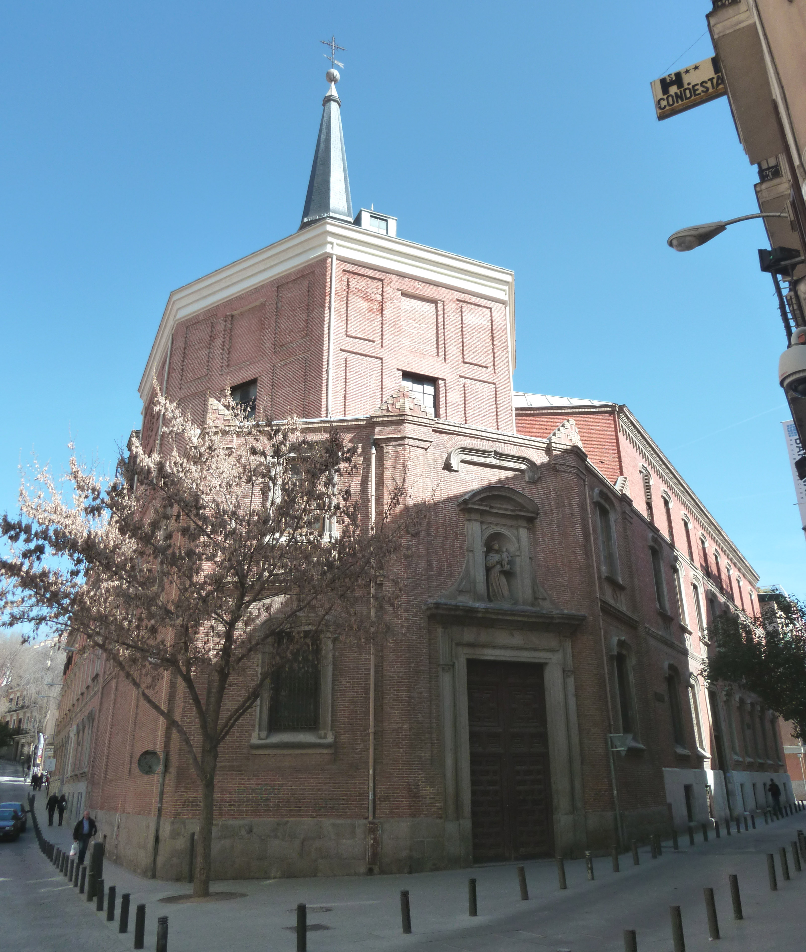 Façade of Saint Anthony Church in Madrid (Spain).